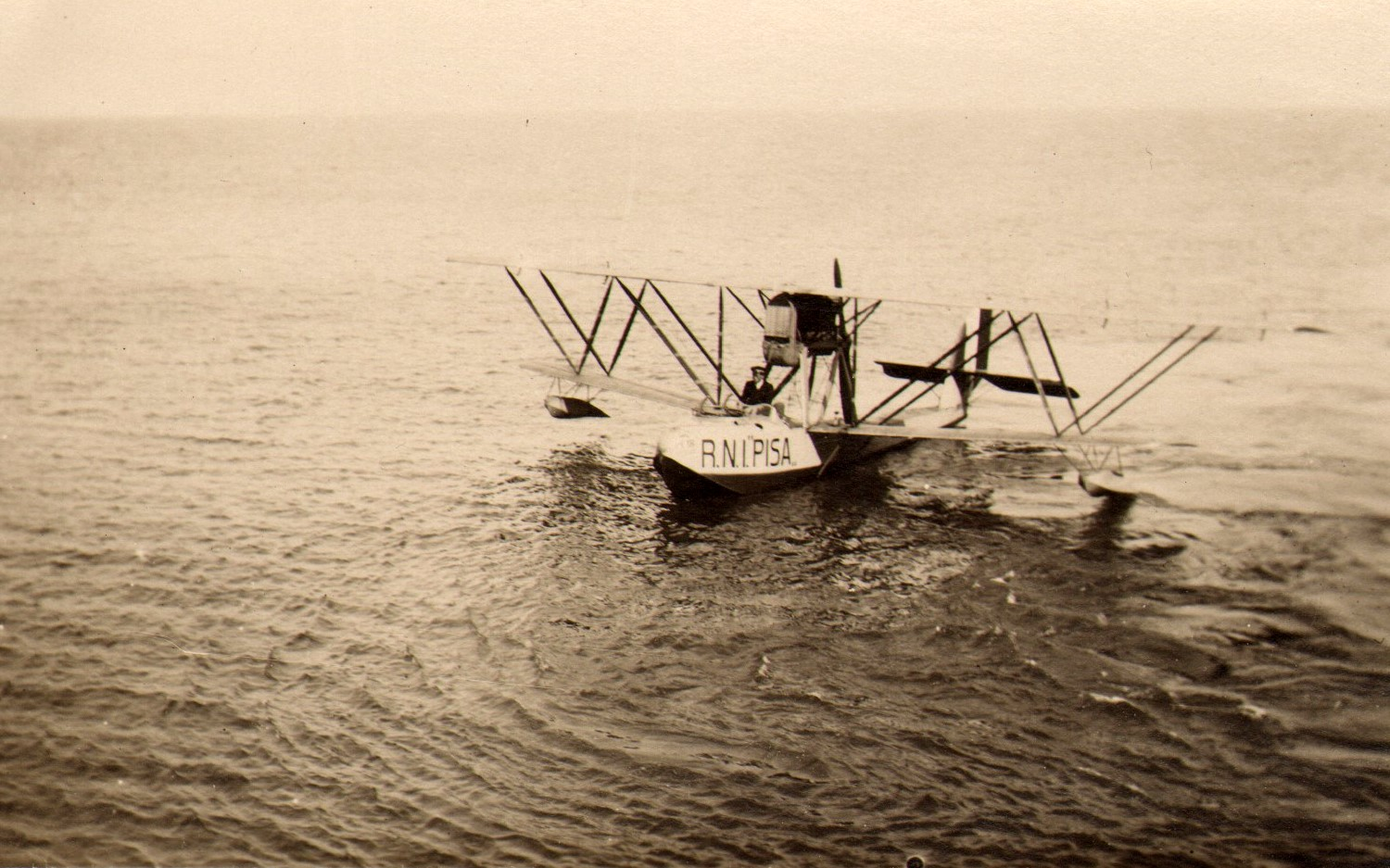 HM Ship Pisa biplane. The original picture, scanned by Emiliano Burzagli, belongs to the Private archive of Burzaghi family, Italy.